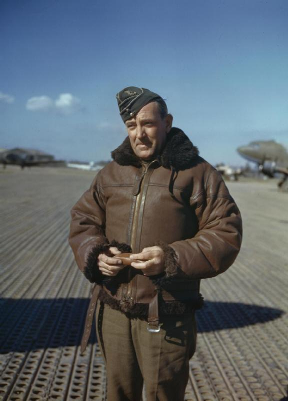 Air Marshal Sir Arthur Coningham, Italy, January 1944 The Commander of the Allied Forces in Tunisia, Air Chief Marshal Sir Arthur Coningham, KCB, DSO, MC, DFC, AFC, standing on a perforated steel runway in the Italian theatre shortly before returning to Britain to take up his duties as Air Officer Commanding No 2 Tactical Air Force.